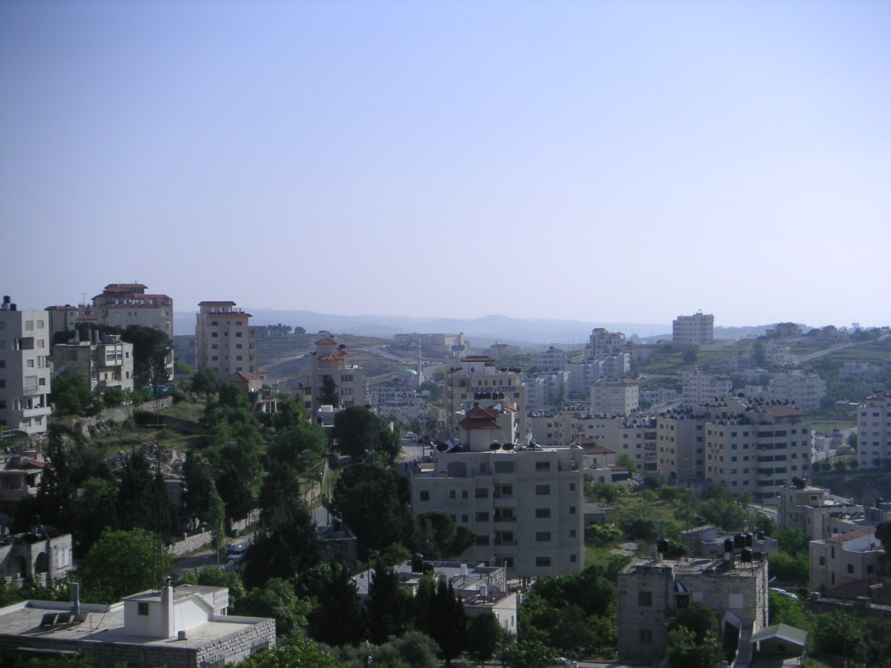 Photo: Soman The town of Yabroud is the smallest one in the Ramallah area. The people there have set of roots in the in places around the world. This town has stood in roughly the same place for over 20 centuries, YABROUD is populated with people from dar katash.